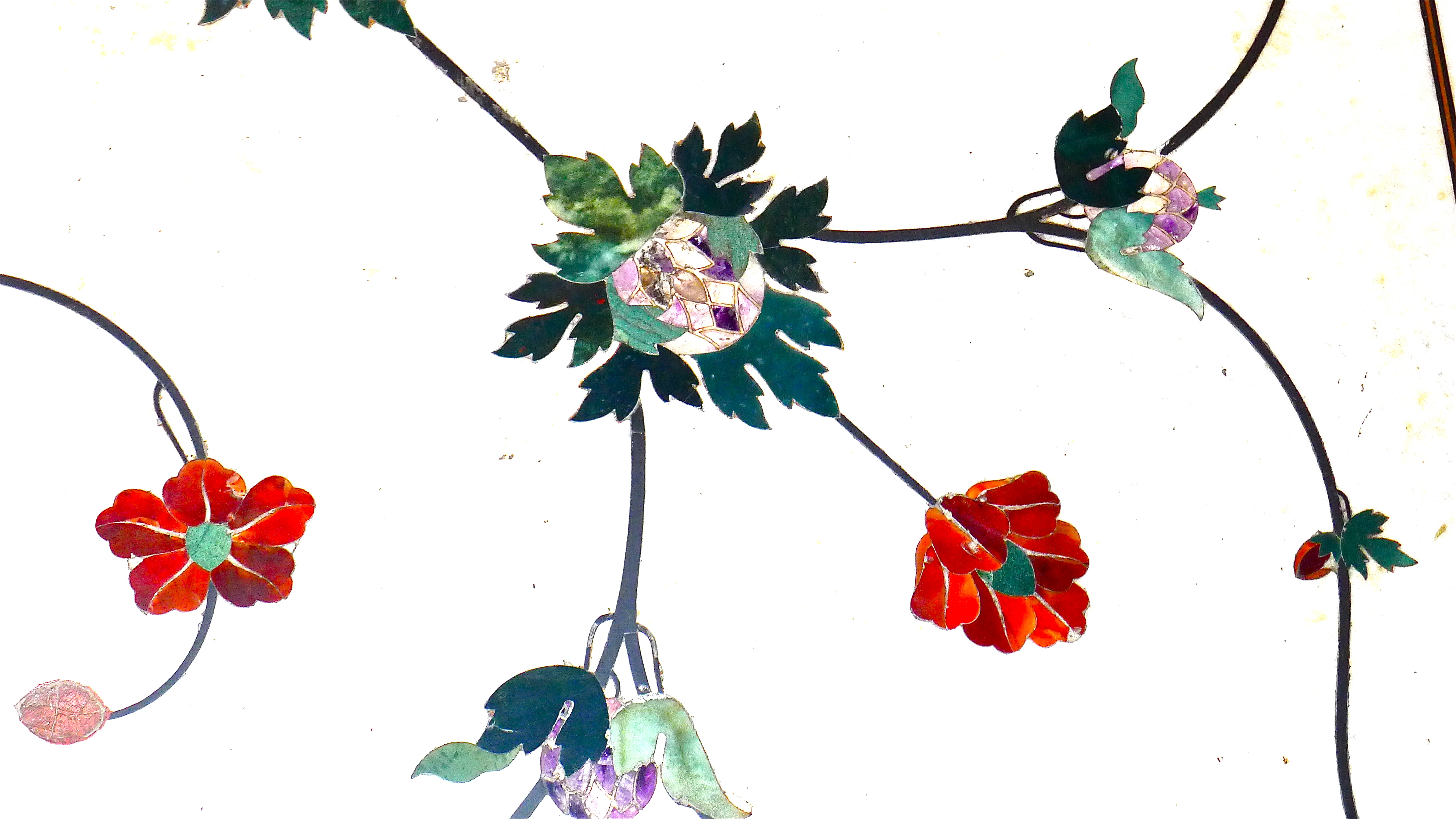 detail of the stone inlay of the tomb of Jehangir